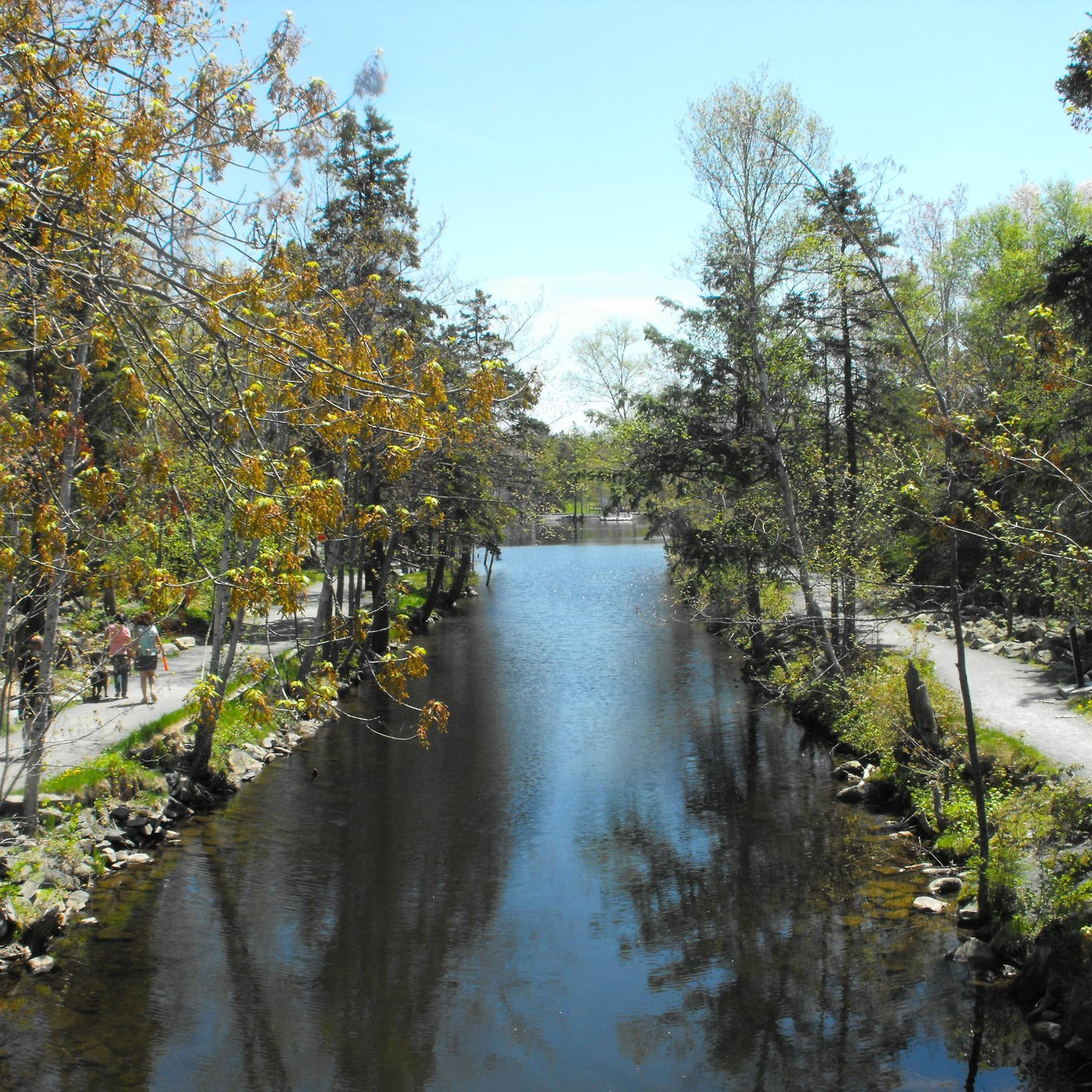 Shubenacadie Canal Walk, Dartmouth, Nova Scotia